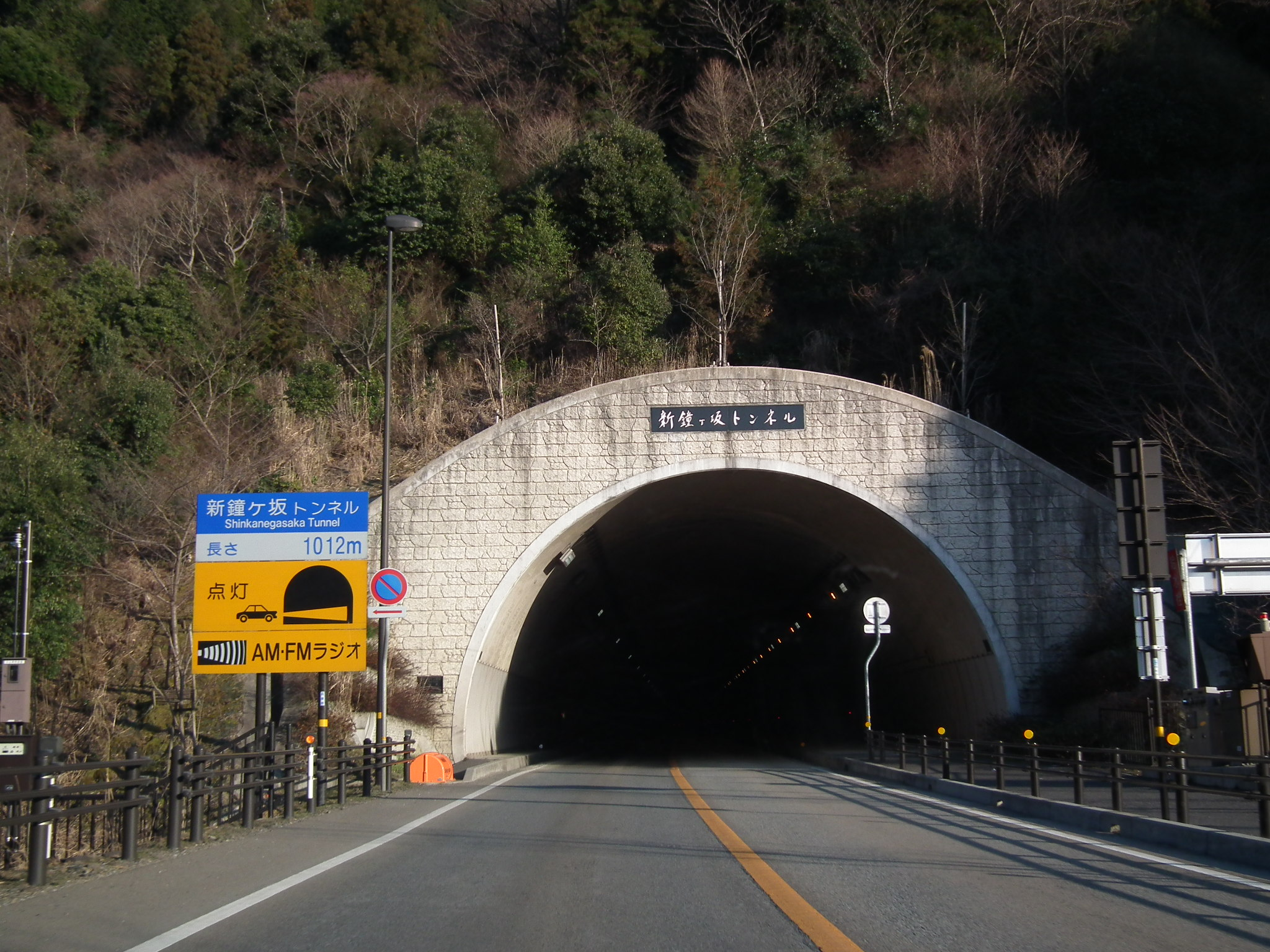 Shin-Kanegasaka-Tunnel